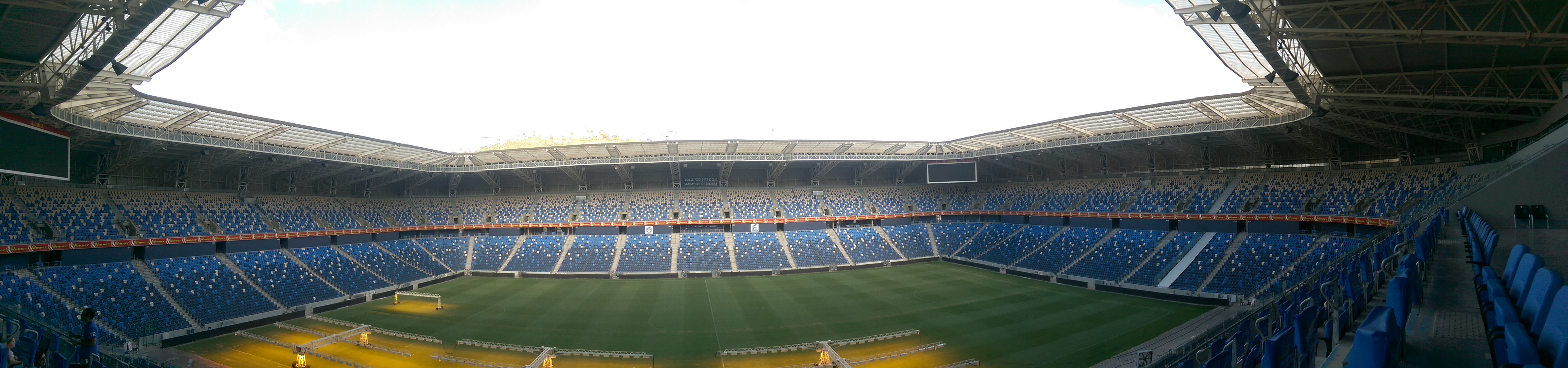 פנורמה של האצטדיון מיציע היהלום